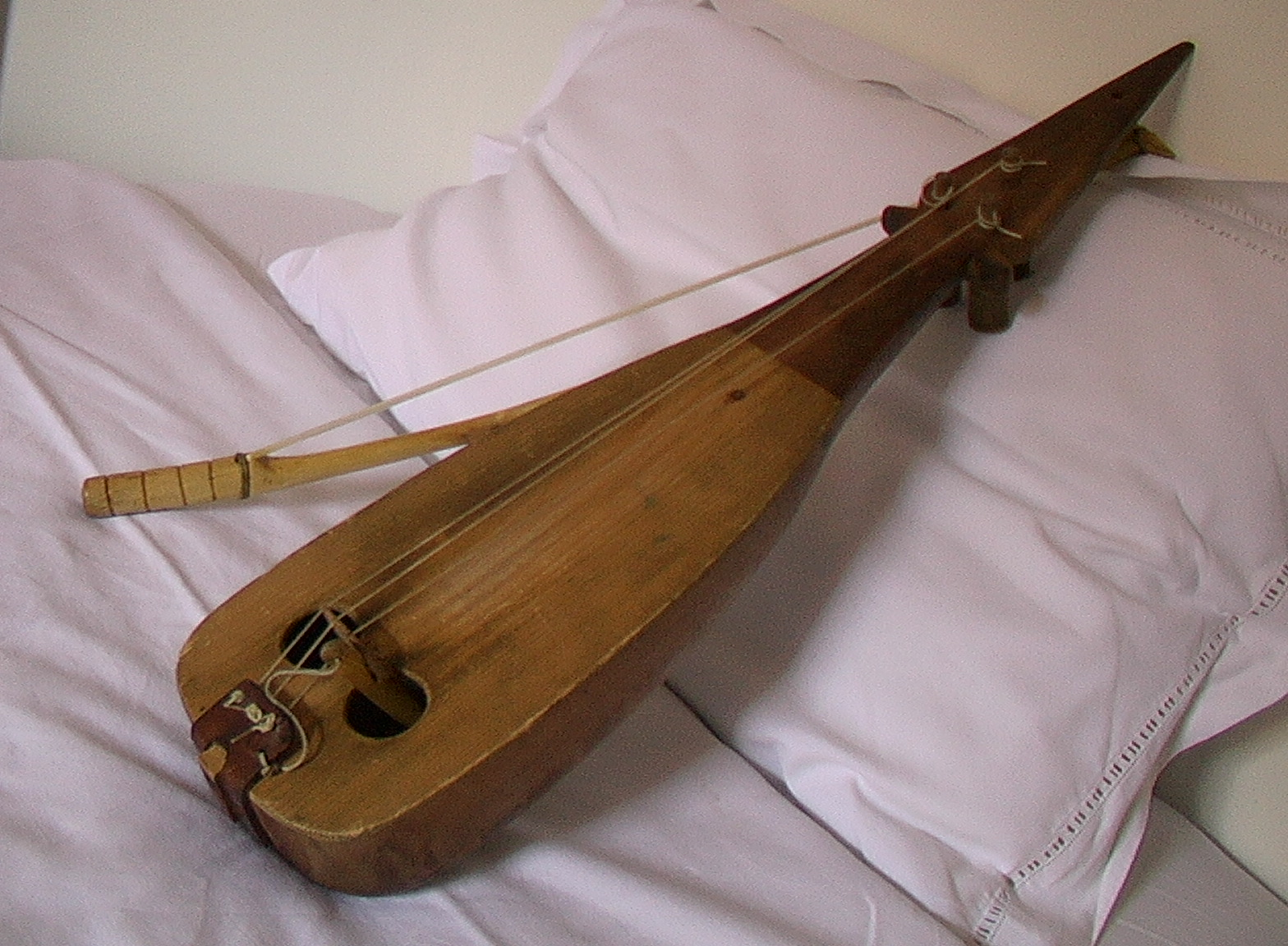 Calabrian lira